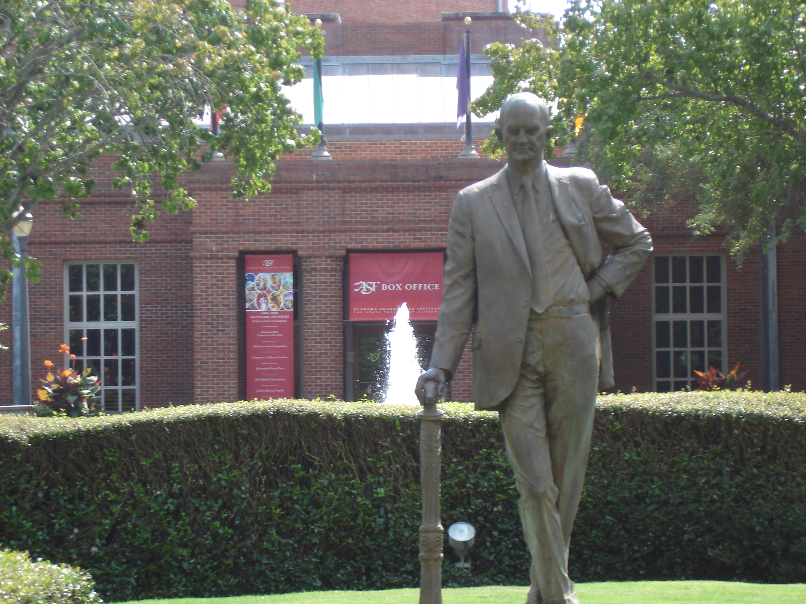 Bronze statue of Winton M. Blount by sculptor Charles Parks in the Blount Cultural Park in Montgomery, Alabama.